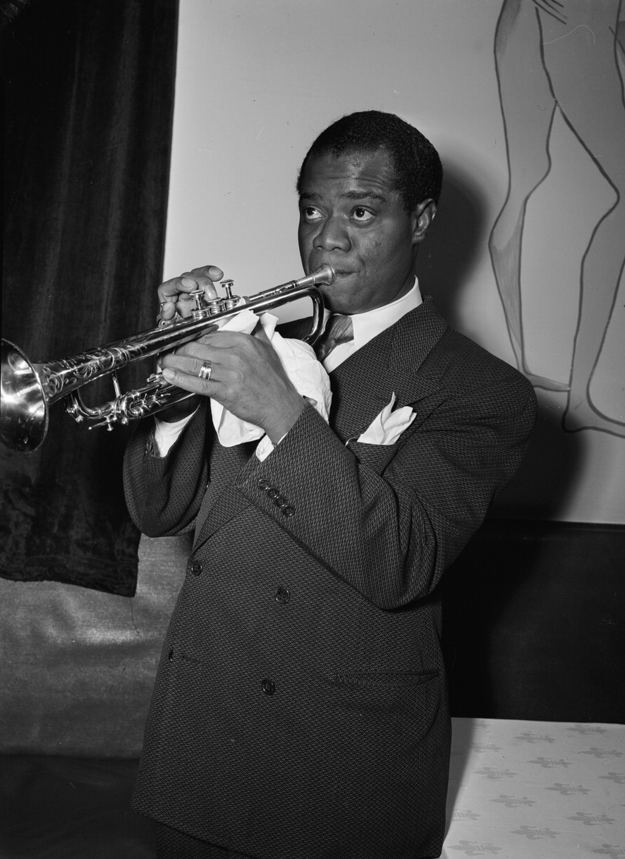 Louis Armstrong